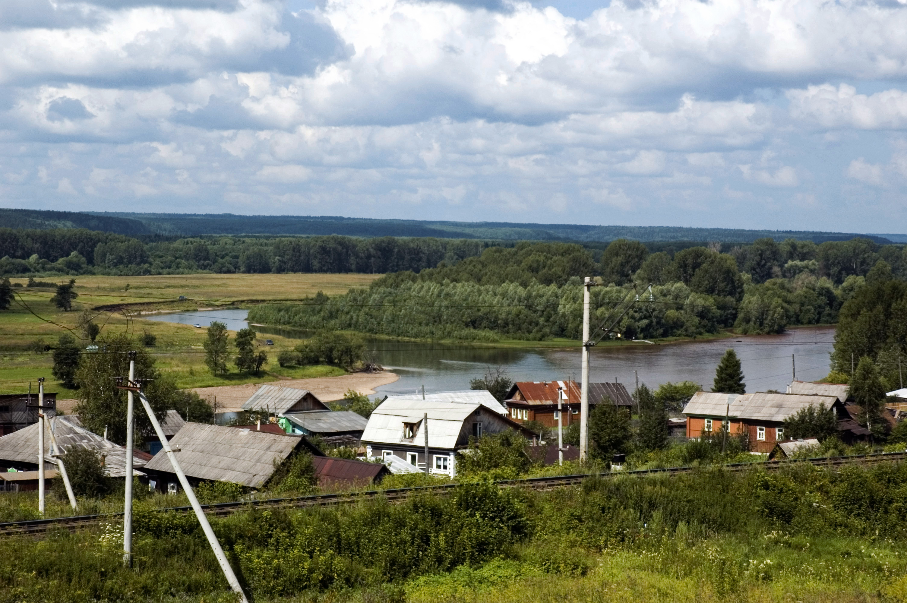 Confluence of Vilva river and Usva river in Chusovoy town, Perm region, Russia